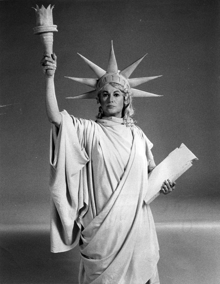 Publicity photo of American actress Bea Arthur promoting her role on the television series Maude.